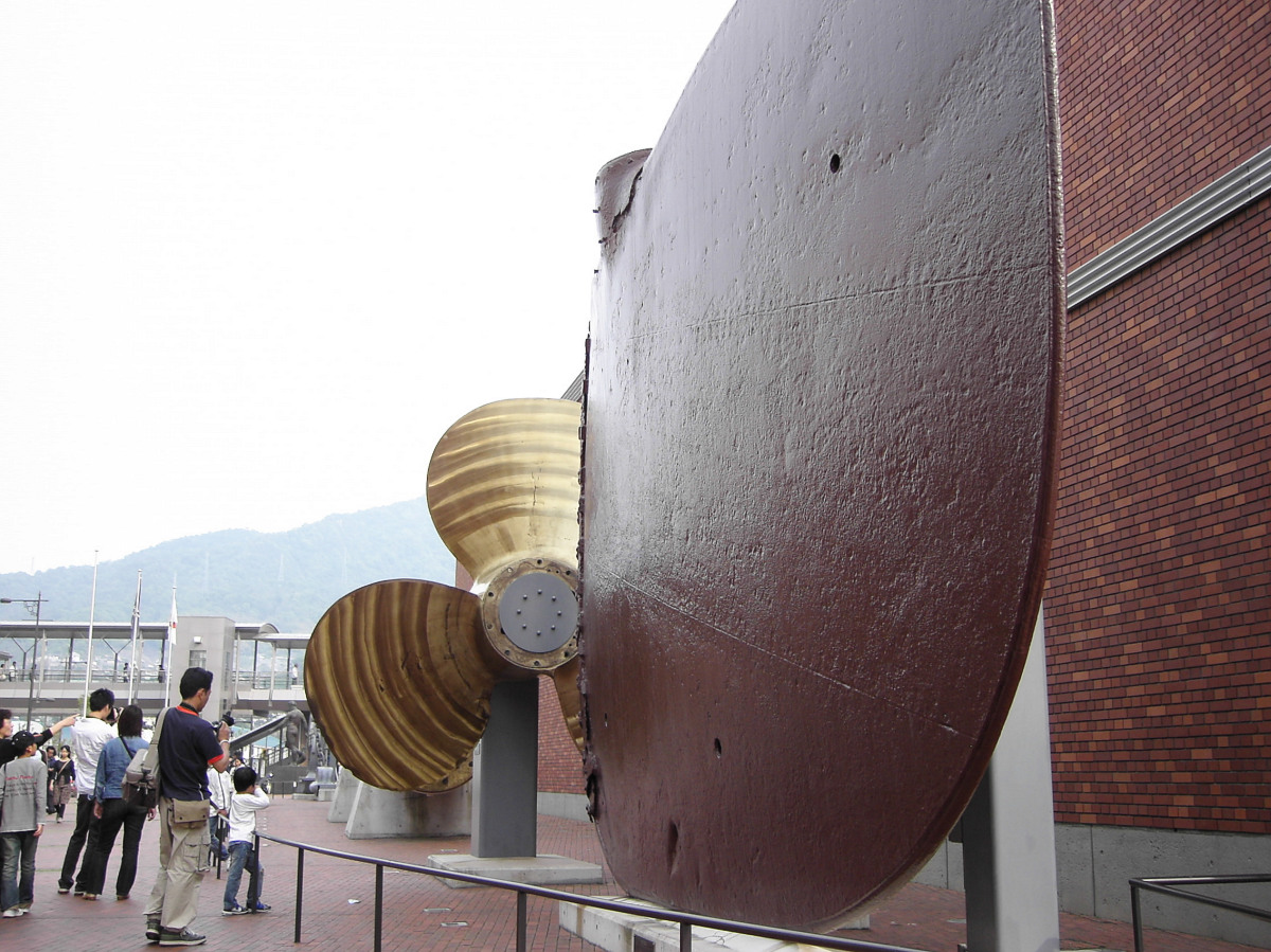 Photograph of rudder and propeller from Japanese battleship Mutsu, at the Yamato Museum, Kure, Hiroshima, Japan. See File:Mutsu propeller Yamato Museum.jpg for view of propeller from other side.